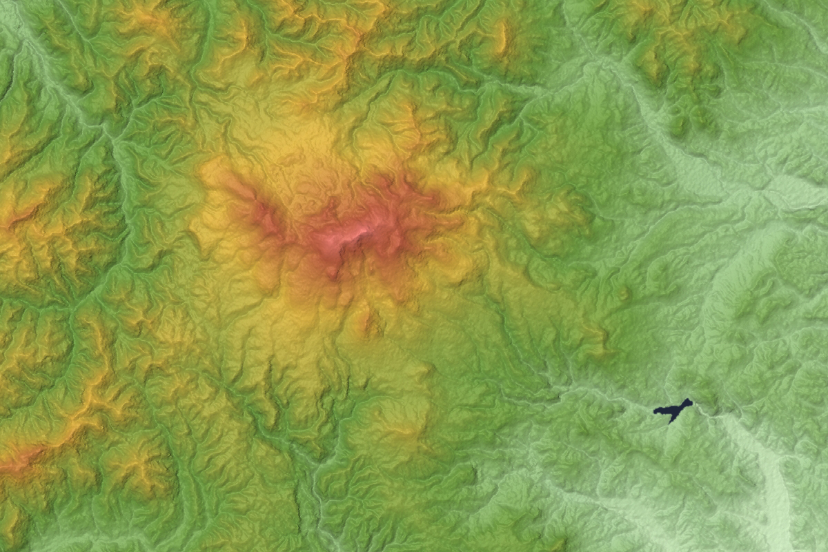 Mount Kurikoma (Kurikoma-yama) is a volcano in Tōhoku Region, Honshu, Japan.